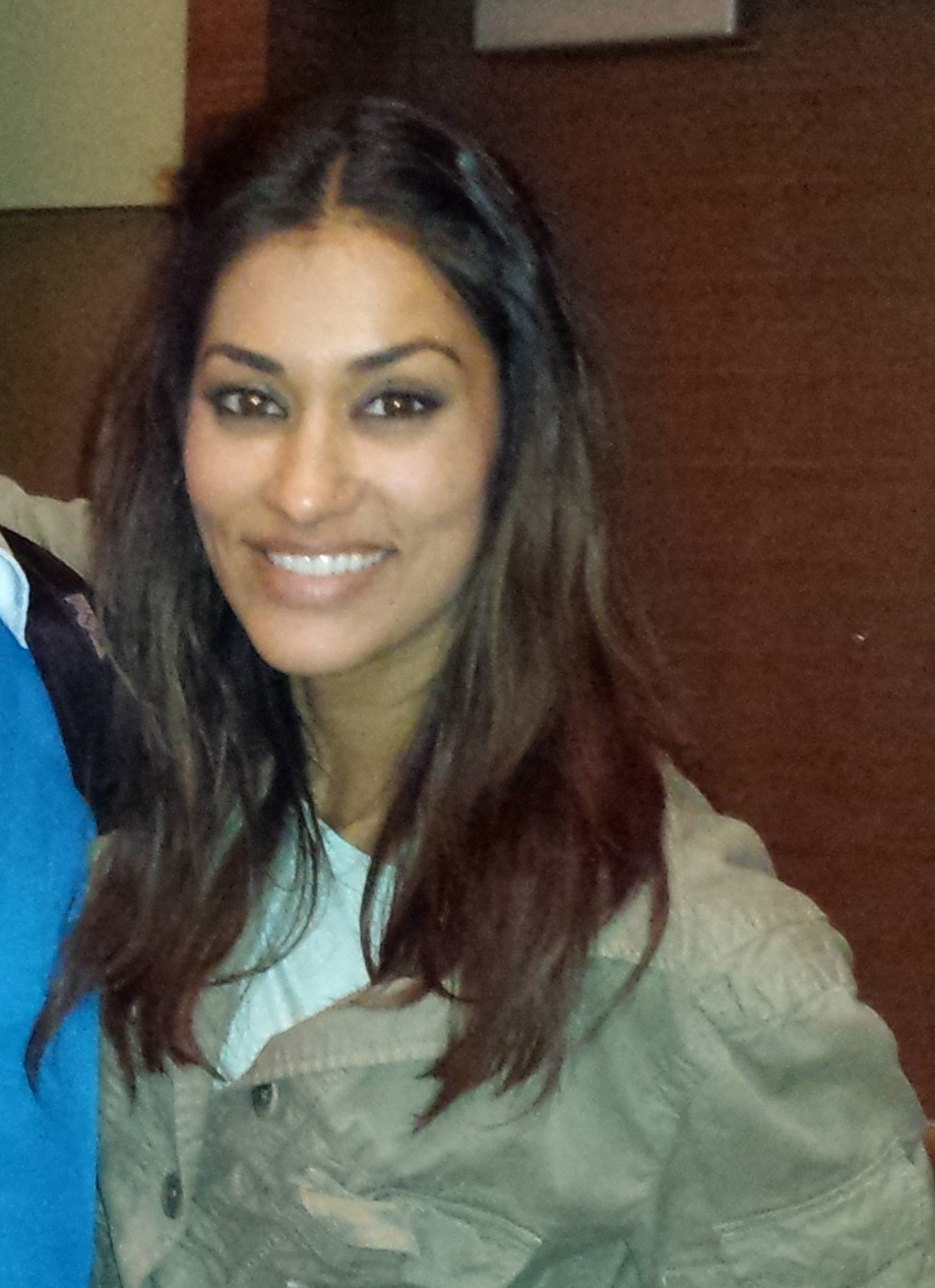 Janina Gavankar (True Blood, The League) at Dragon Con 2013